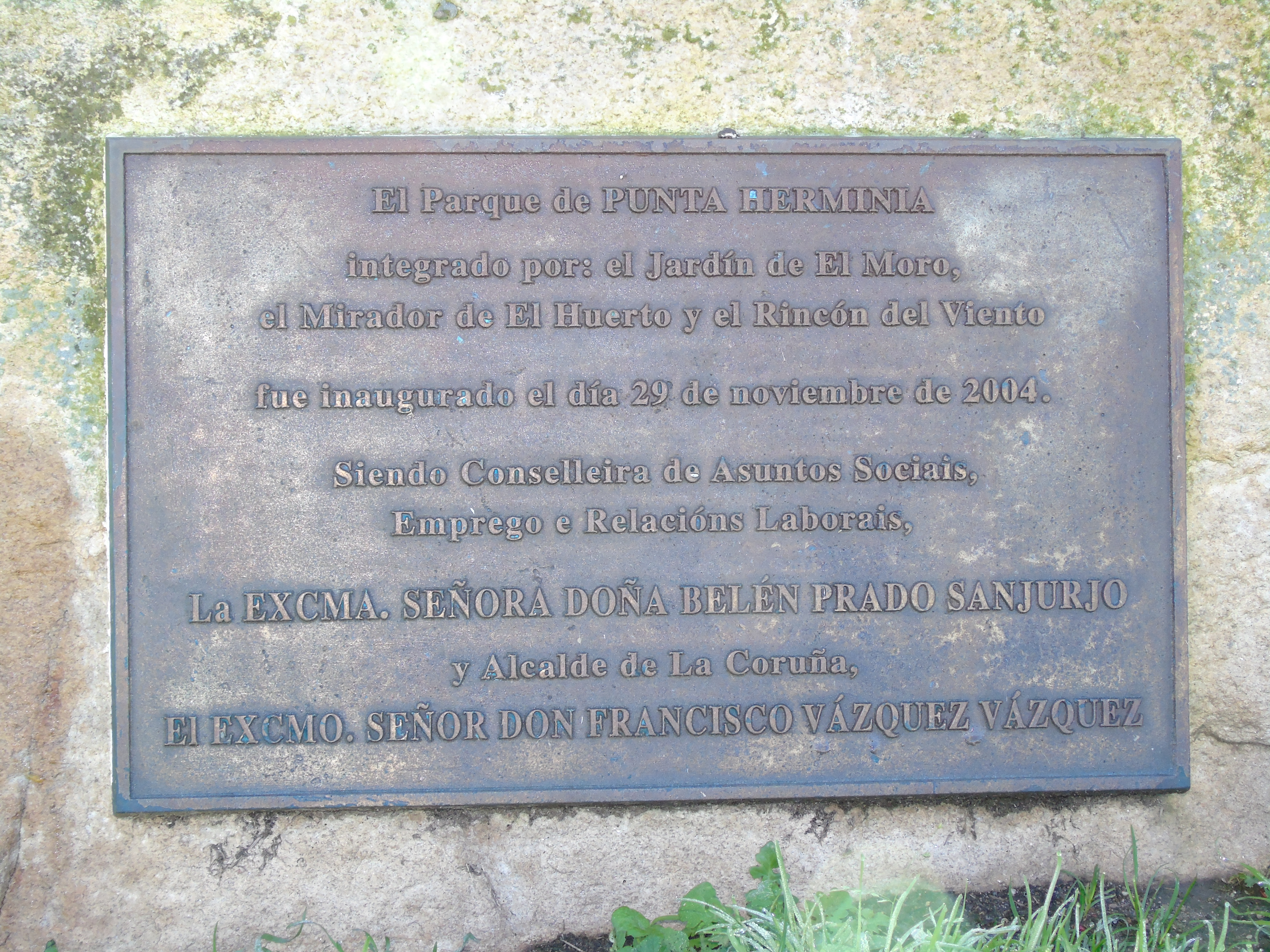 Plaque of Punta Herminia Park (next to to Park of Tower), in A Coruña, Galicia in Corunna, Spain